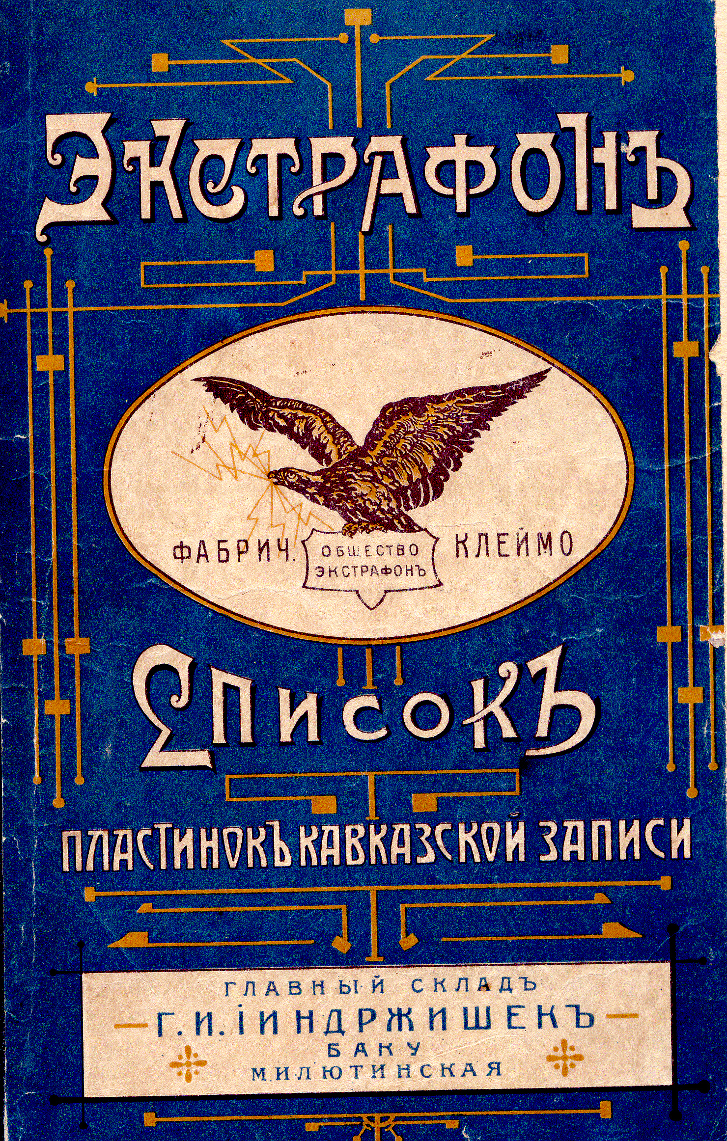 Catalogue of gramophone records («Экстрафон», Baku)